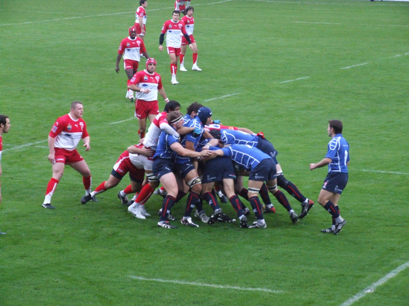 Picture taken on December 17, 2006 at Parc des Sports d'Aguilera in Biarritz, France.